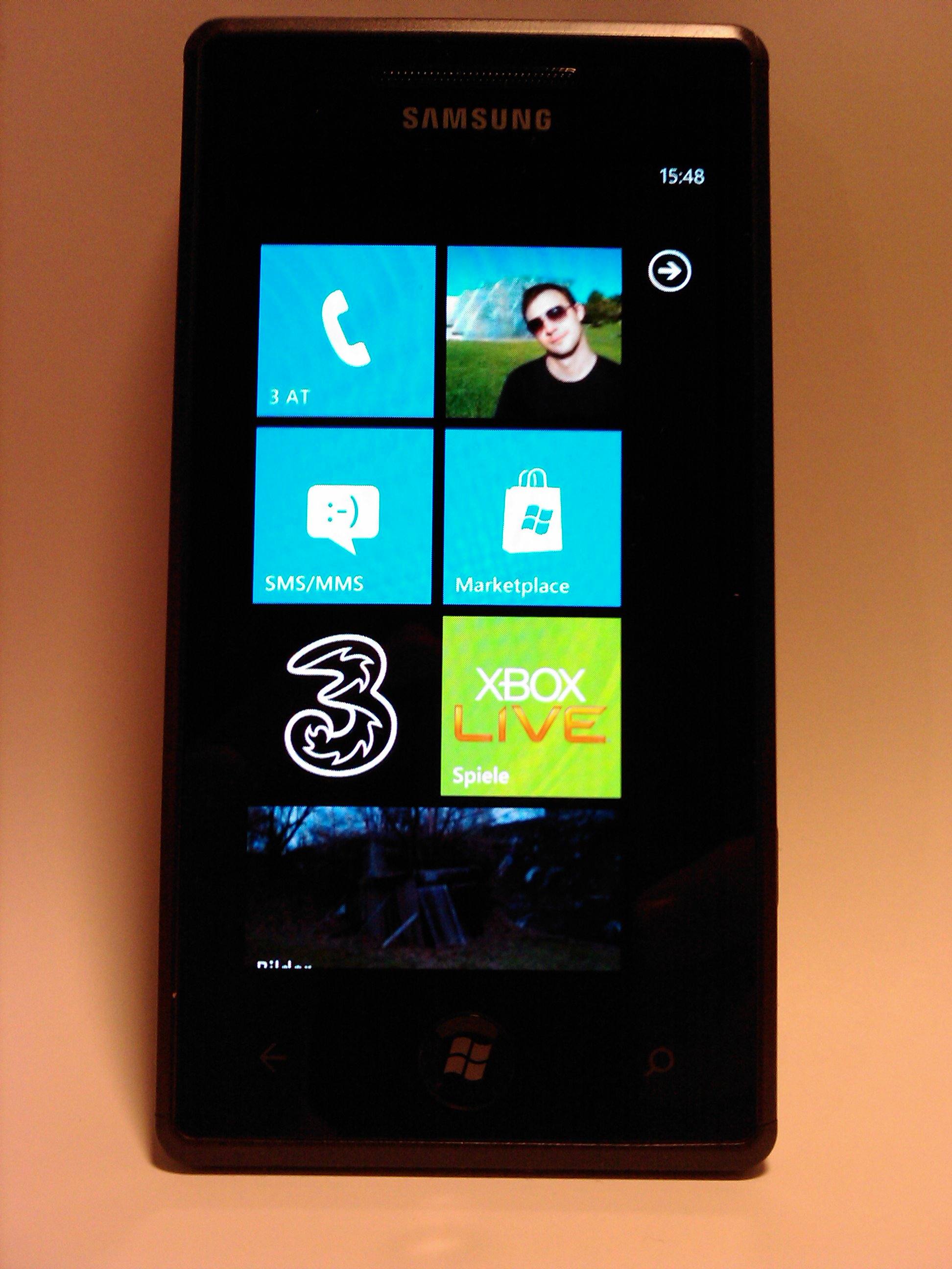 Picture from the Samsung Omnia 7 (also known as Samsung I8700) with Windows Phone 7 Homescreen.